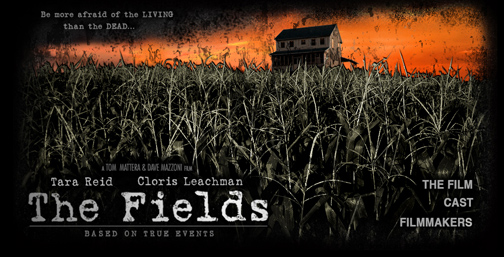 The Fields Movie website screenshot.